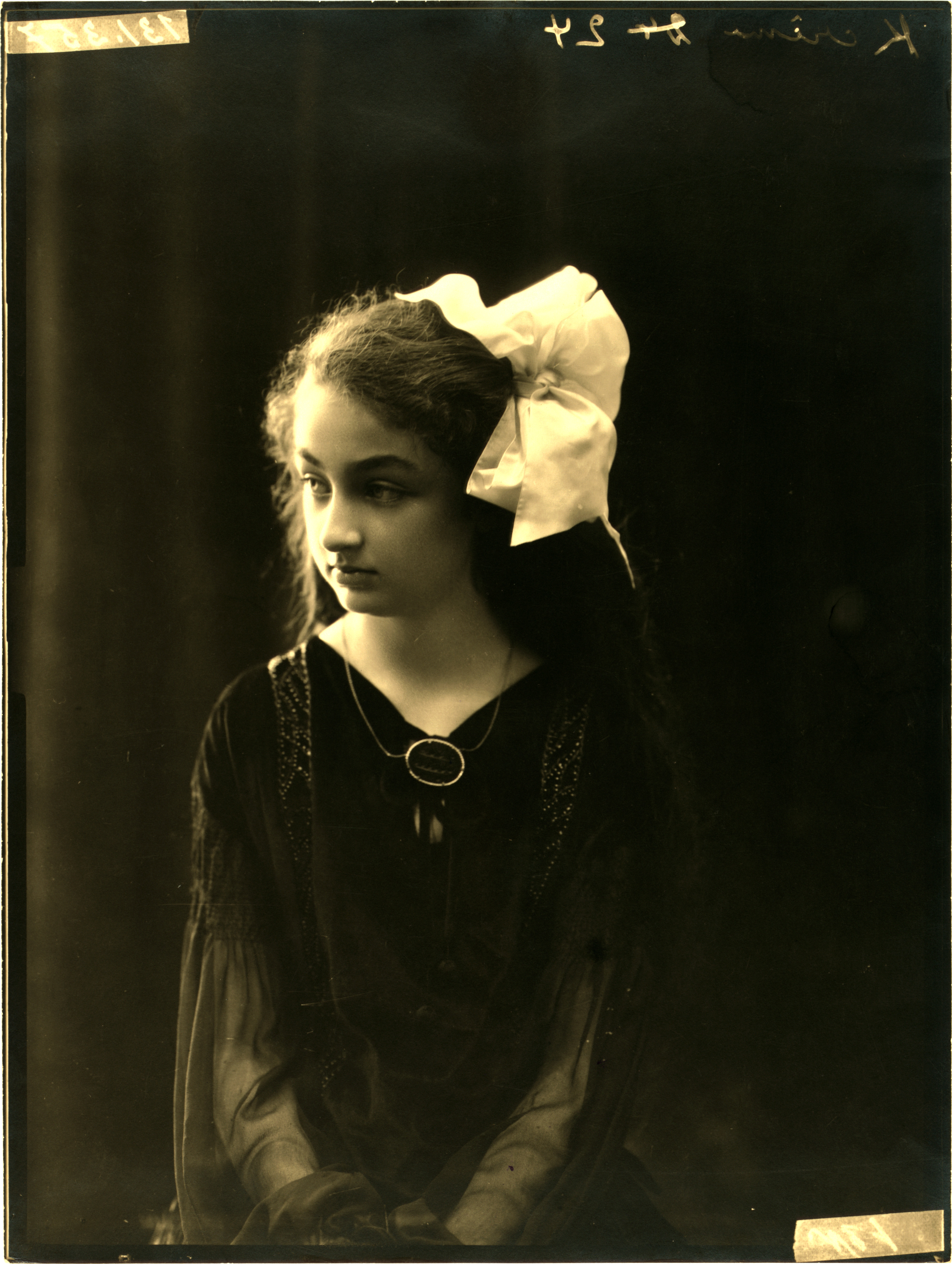 La gracieuse Princess Durri-Chechvar Sultane, fille de S.M. le Calife. Young girl (alternate spelling: Hadice Hayriye Ayshe Dürrühsehvar), daughter of Caliph Abdulmecid II, half-length portrait, seated, facing left, approximately 9 years old. Photograph by Sebah & Joaillier, July 1923. Princess Durru Shahvar , whose father was raised by a branch of the Ottoman monarchy deeply interested in modernizing reforms and believed in modern education for women including his wives and daughter, became a popular public figure after her arrival in Hyderabad. She believed that women should earn their own living, and helped to remove the practice of purdah. From the U.S. Library of Congress. [PD] This picture is in the public domain in the United States.